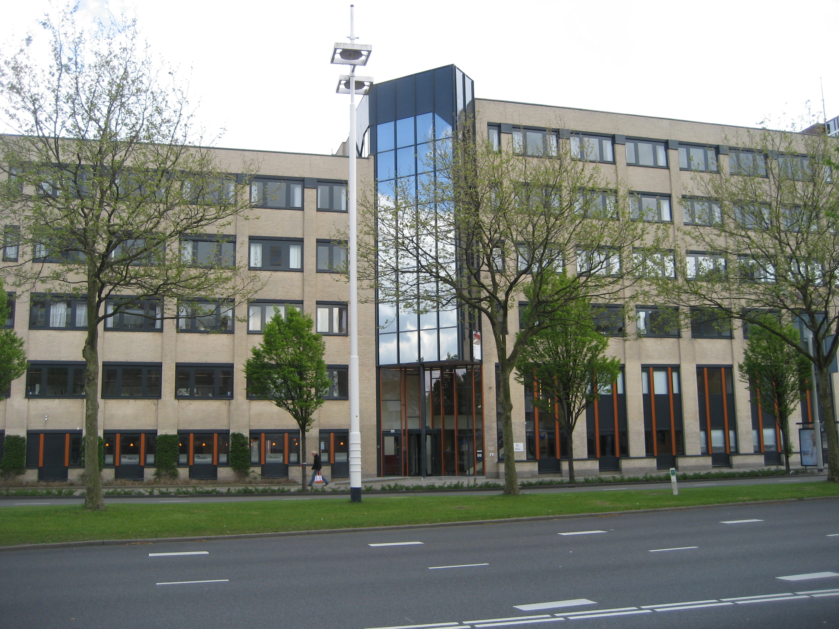 OCLC EMEA, Schipholweg 99, 2316XA Leiden, The Netherlands. (Formerly PICA)